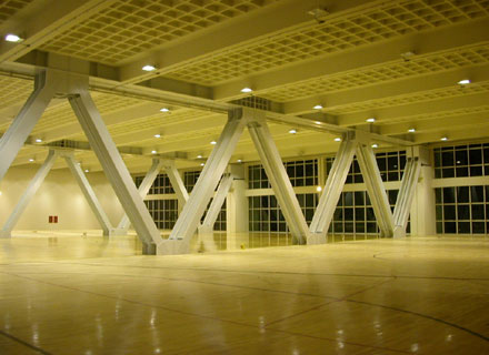 Resultado final da montagem com fôrmas para laje Nervurada